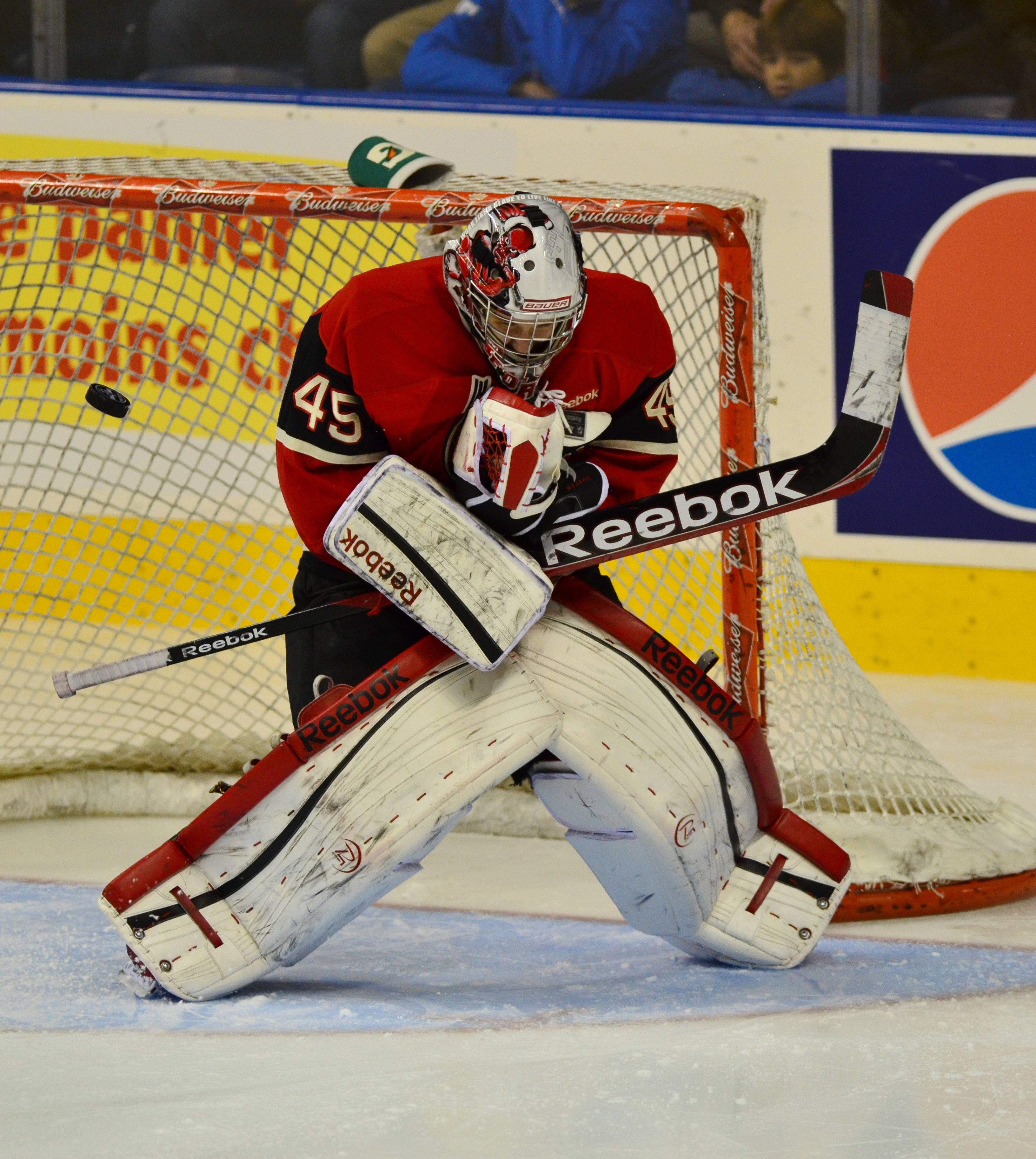 Remparts goalie Zachary Fortin during a hockey game of the QJMHL between the Quebec Remparts and the Cape Breton Screaming Eagles.